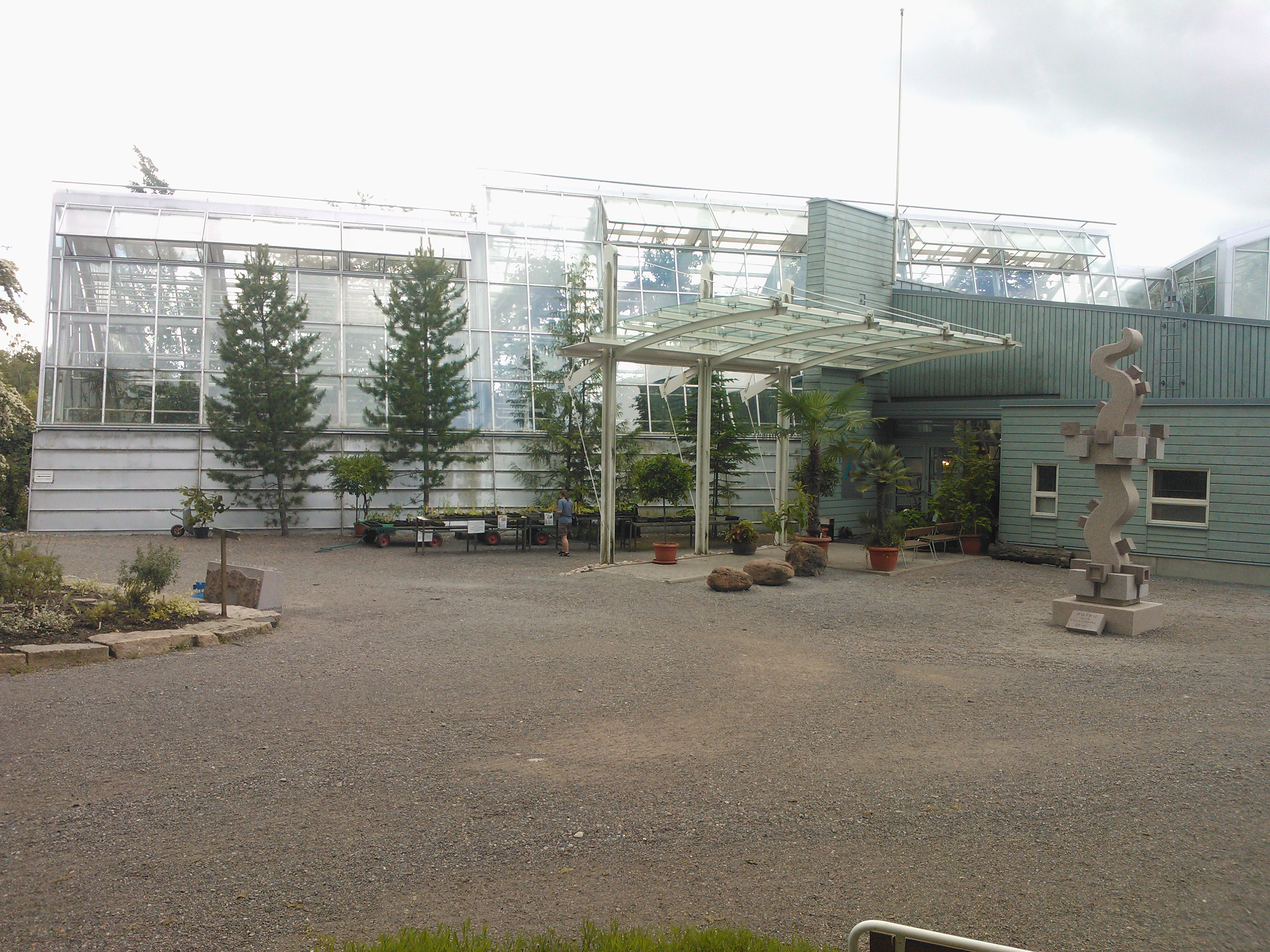 The Botanic Garden of the University of Turku is located in Turku, Finland.